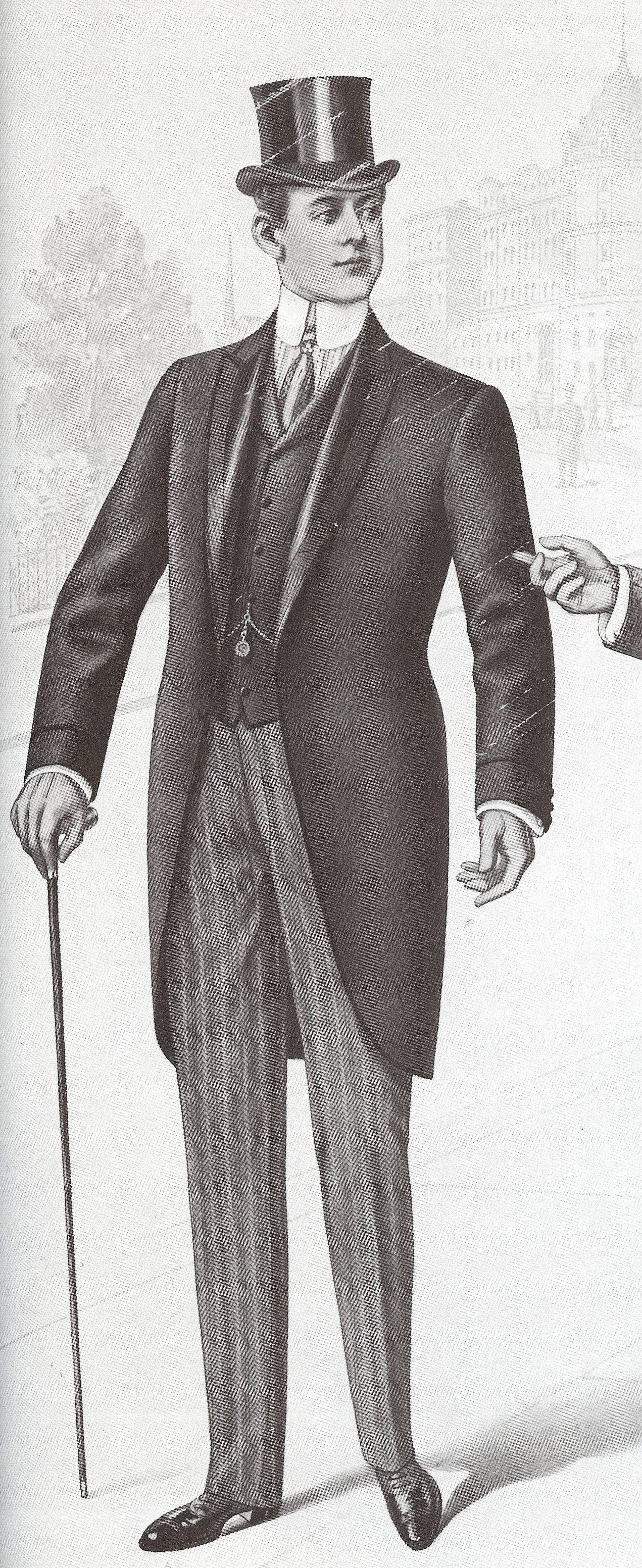 Published by Jno. J Mitchell Co. New York, 1910, a morning coat